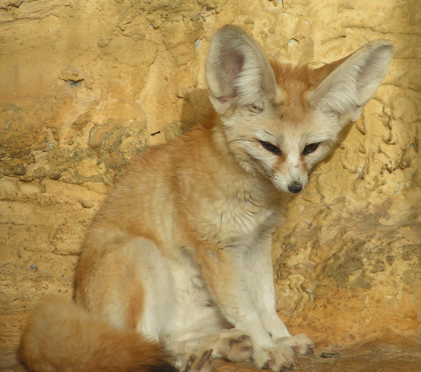 Taken in the Garden for Zoologic Research, Tel Aviv University, Israel.